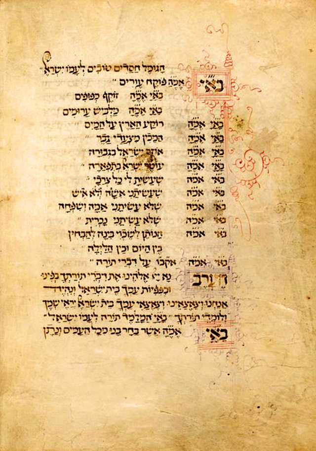 Abraham ben Mordecai Farissol, scribe, Mahzor Italian rite commissioned for woman, 1471, MS 8255, Fol. 5v.